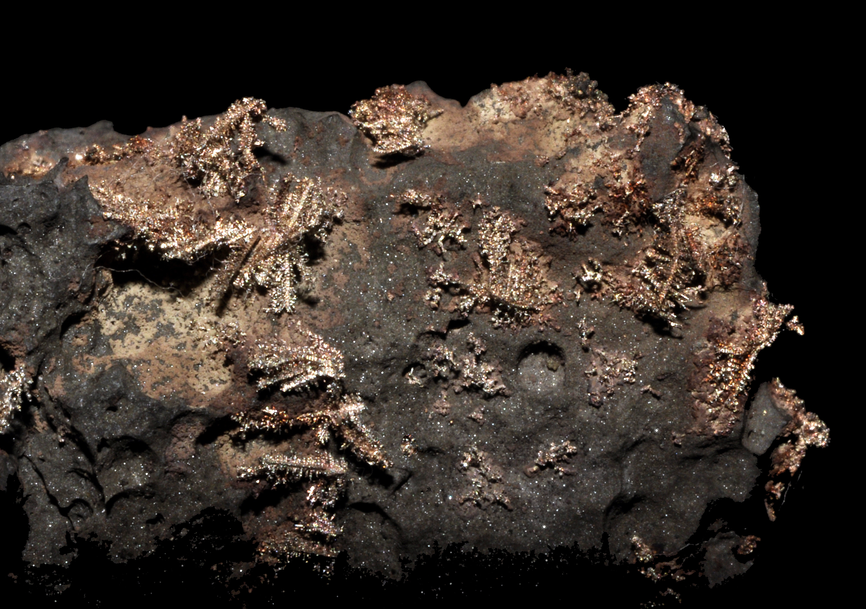 silver, arsenic : Shaft 371, Schlema-Hartenstein District, Erzgebirge, Saxony, Germany - 45 mm